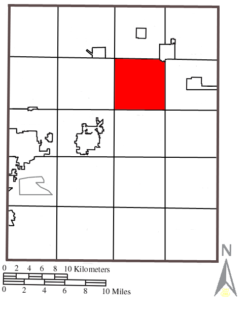 Map of Portage County, Ohio with the Freedom Township highlighted.